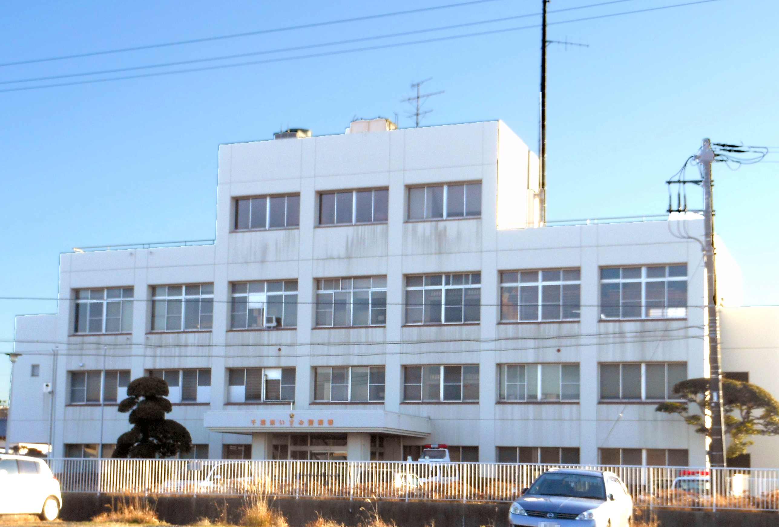 This is the Isumi police station, which is in Isumi, Chiba, Japan.